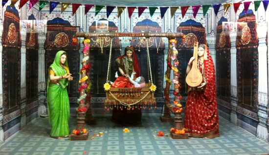 Moving idols of Kausalya, Kaikeyi, Sumitra and infant Lord Rama inside the Manas Darshan Exhibition at Tulsi Peeth, Chitrakoot, Satna, Madhya Pradesh.